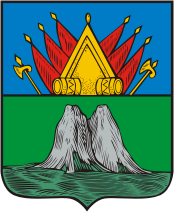 Kurgan (Kurgan oblast), coat of arms (1785)